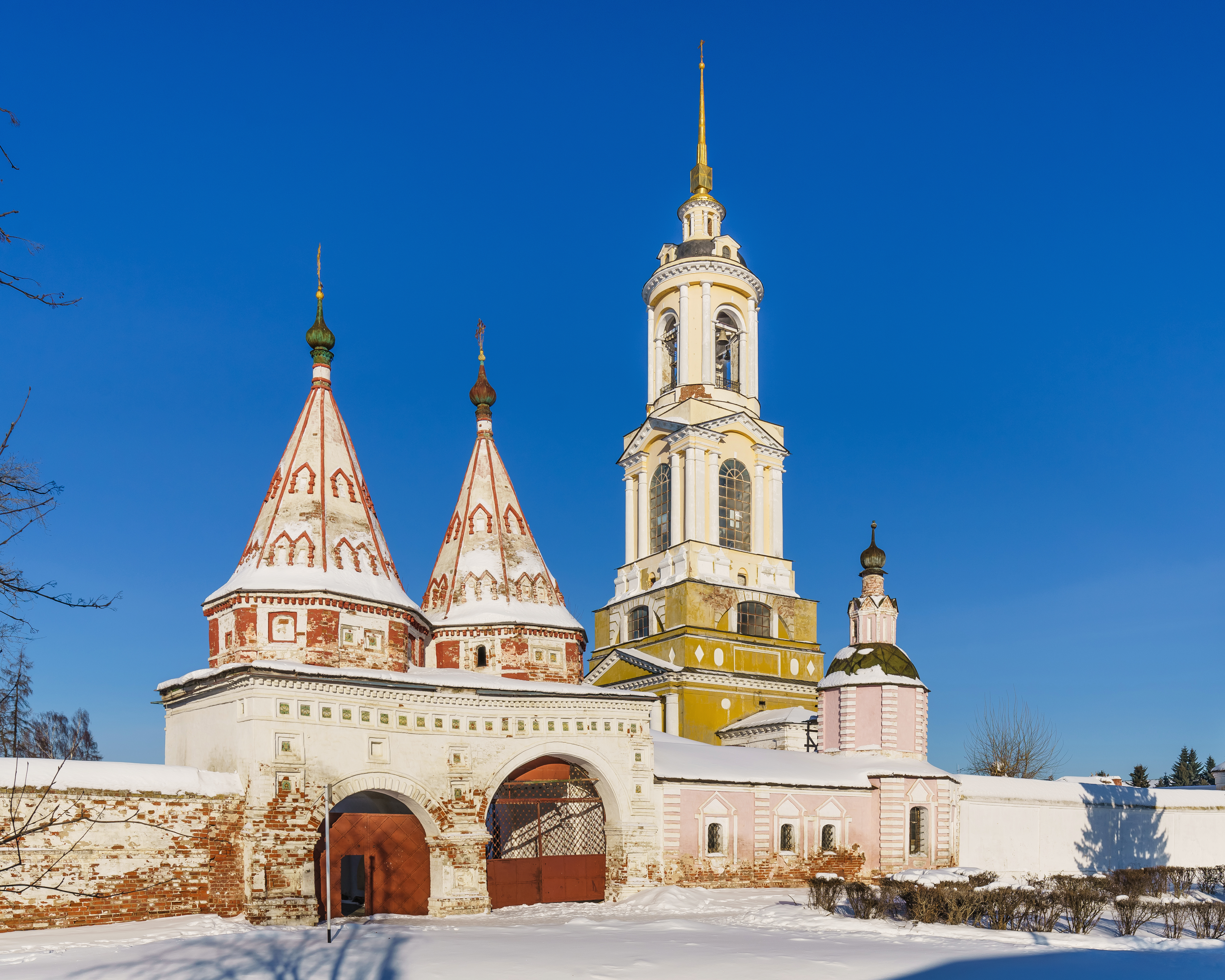 View of Rizopolozhensky Monastery in Suzdal, Russia